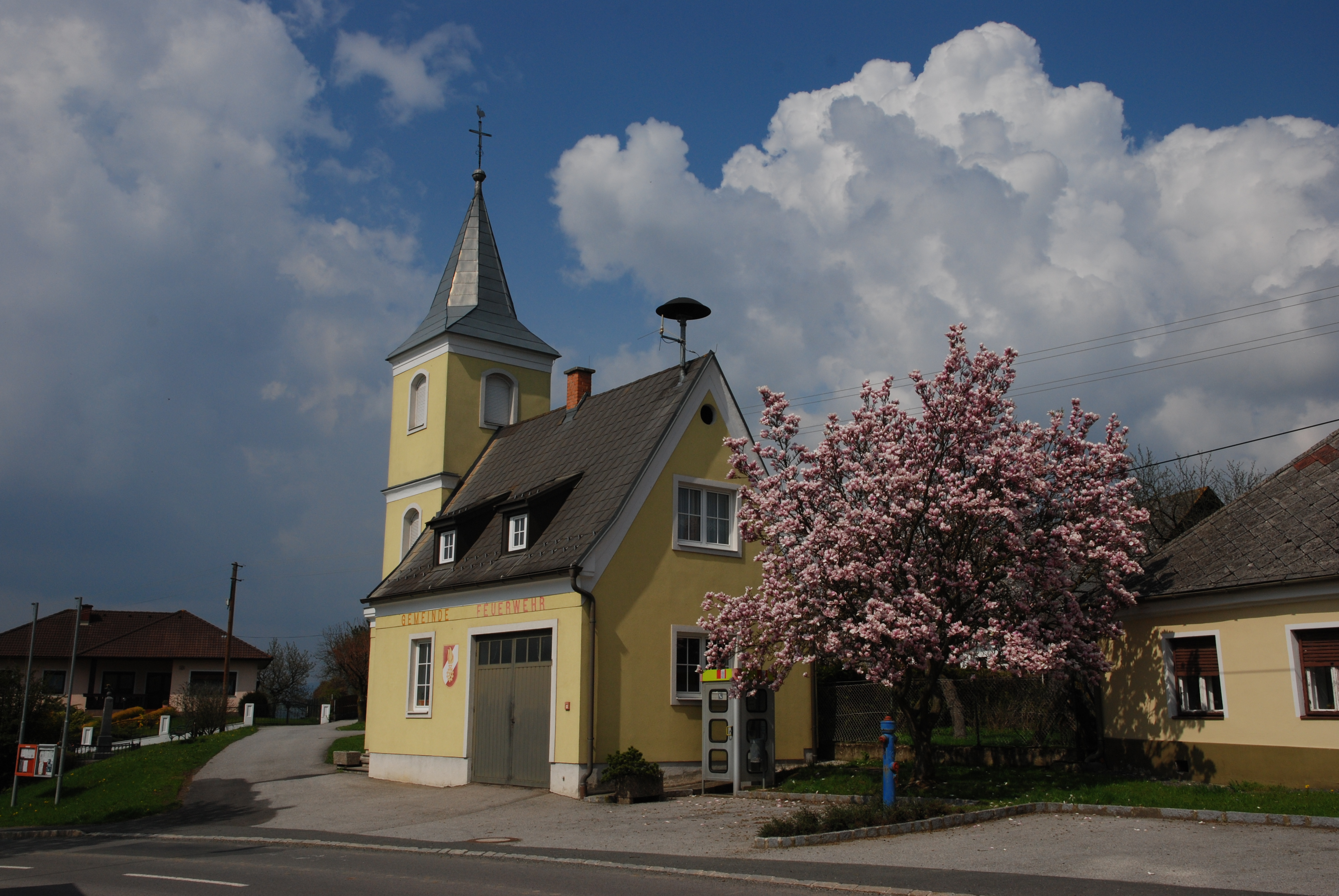 Neustift bei Schlaining